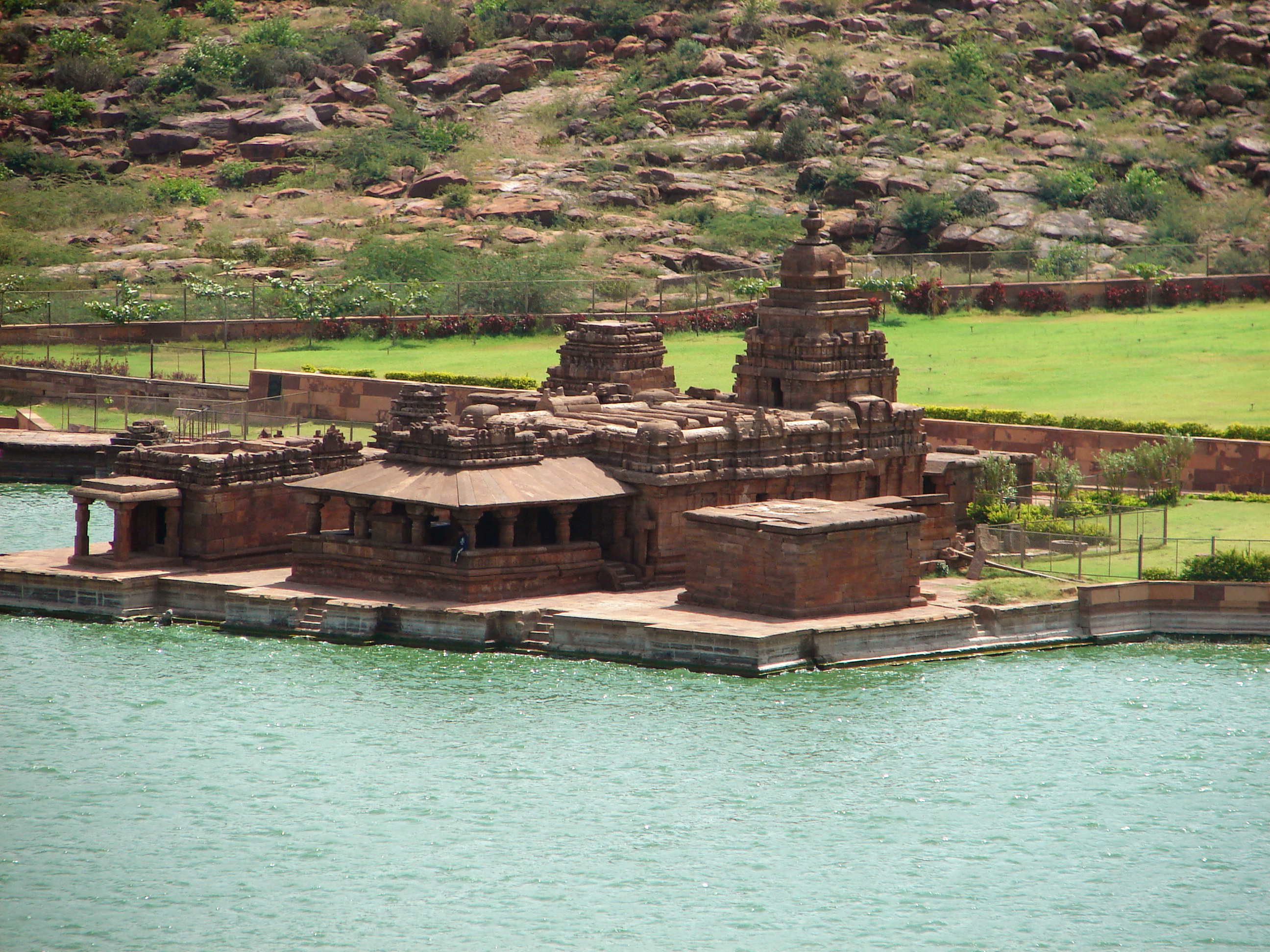 The Bhutanatha group of temples in Badami, Karnataka was built in the 7th century by the Chalukya dynasty of Badami. In the 11th century, the Kalyani Chalukyas added architectural elements as well. The temples face the Badami tank.